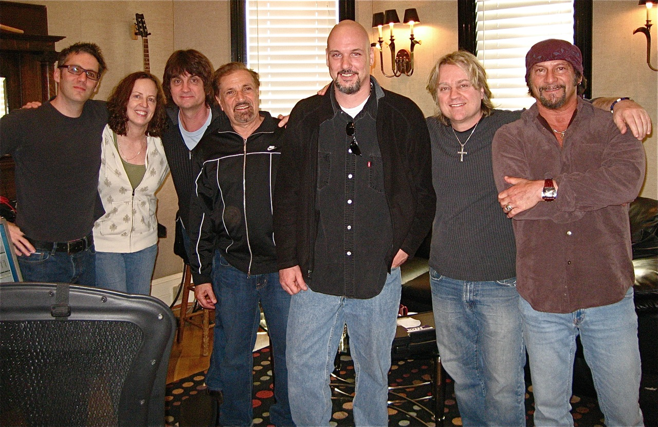 Tim Lauer, Allison Prestwood, Pat Buchanan, Felix Cavaliere, CJ Sorg, Tom Hambridge, David Z.